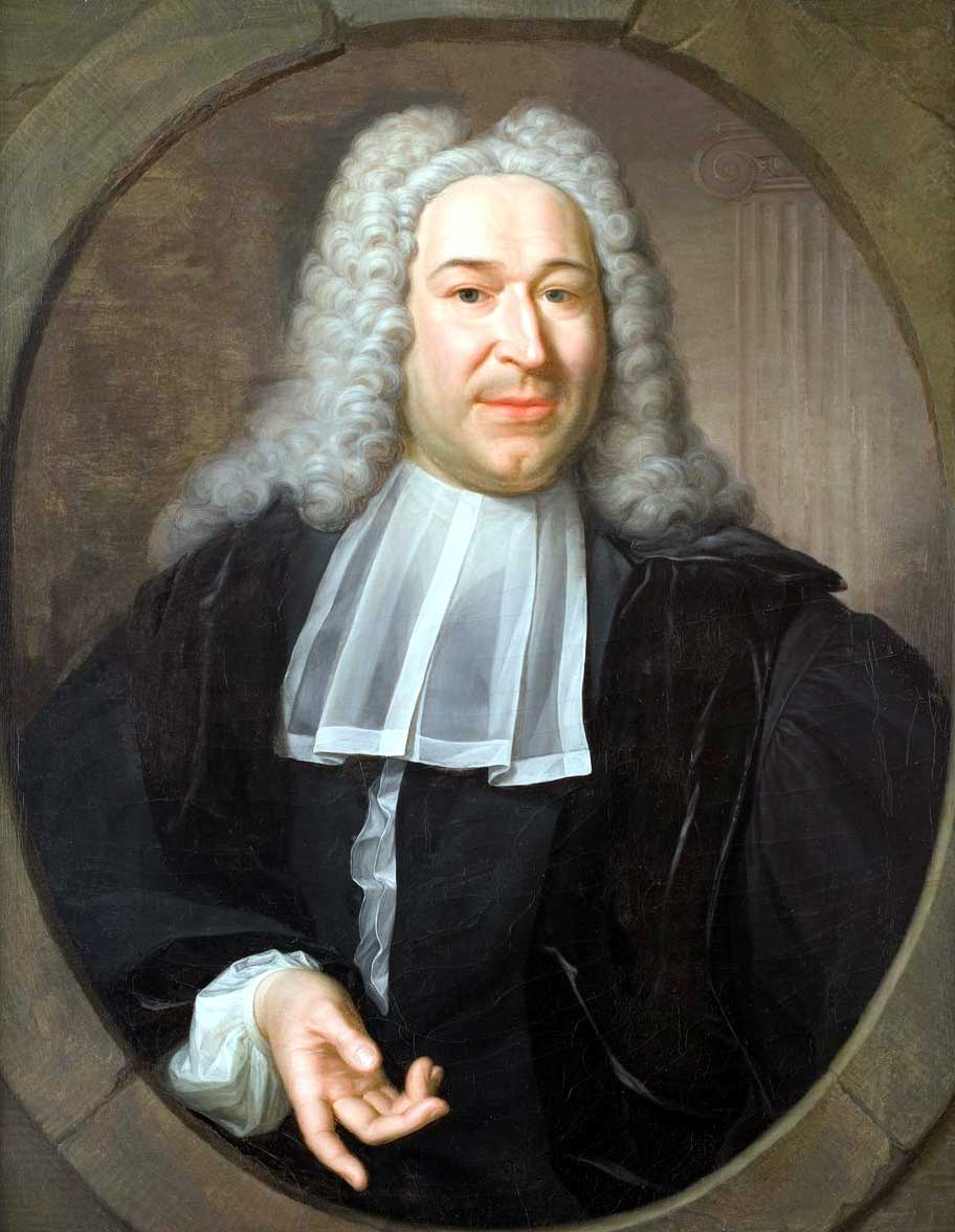 Franz van Oudendorp also: Frans, Franciscus van Oudendorp (1696-1761) Dutch Classical scholar